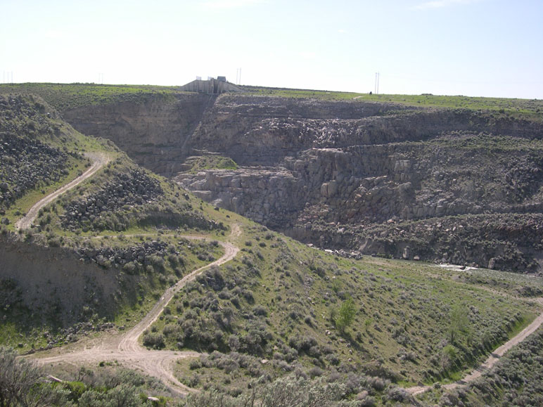 Photo of the old Teton Dam taken by myself.